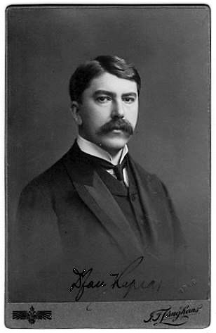 Jan Kapras (1880-1947), Czech lawyer, historian and politician